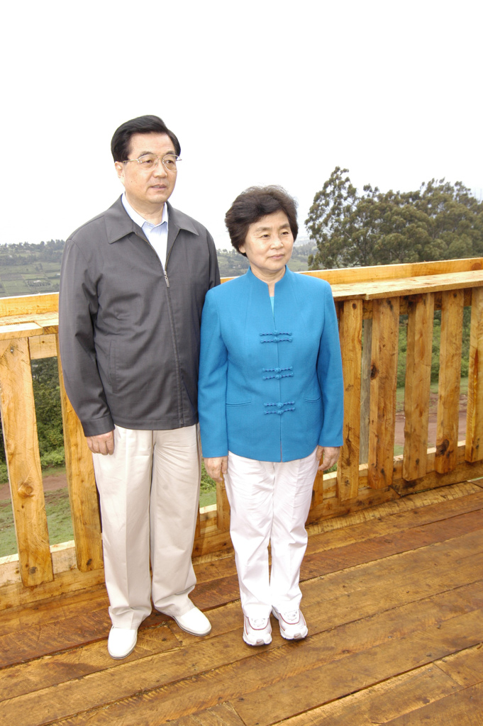 Hu Jintao president of china and his wife. Bân-lâm-gú: Tiong-kok tsú-si̍k Ôo Gím-tô kah in bóo. 中國主席胡錦濤佮in某。